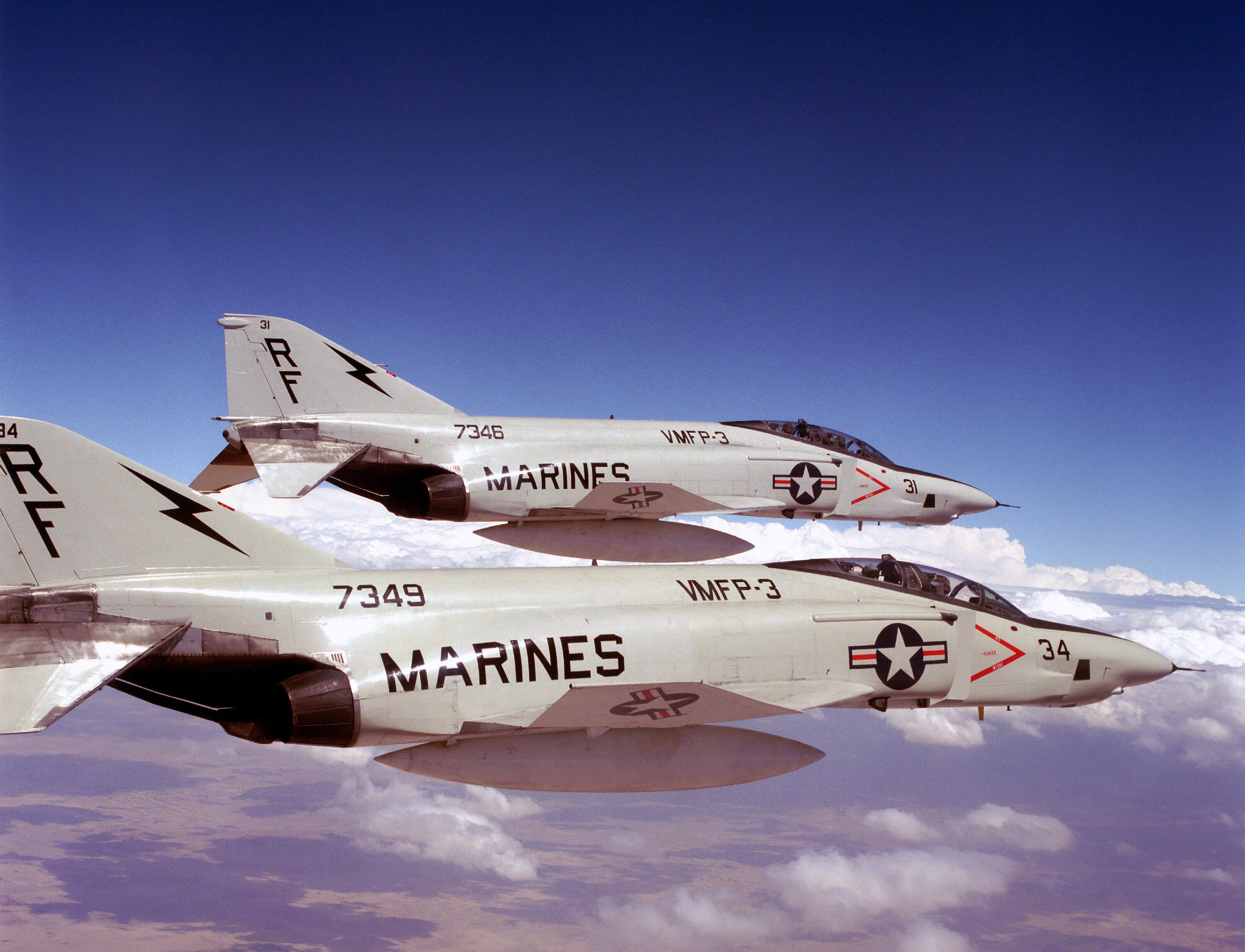 A right rear view of two RF-4C Phantom II aircraft of Marine Photo Reconnaissance Squadron Three (VMFP-3) over the Marine Corps Air Station during a training mission. Location: MARINE CORPS AIR STATION EL TORO, CALIFORNIA (CA) UNITED STATES OF AMERICA (USA)